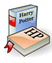 Created by modifying this image